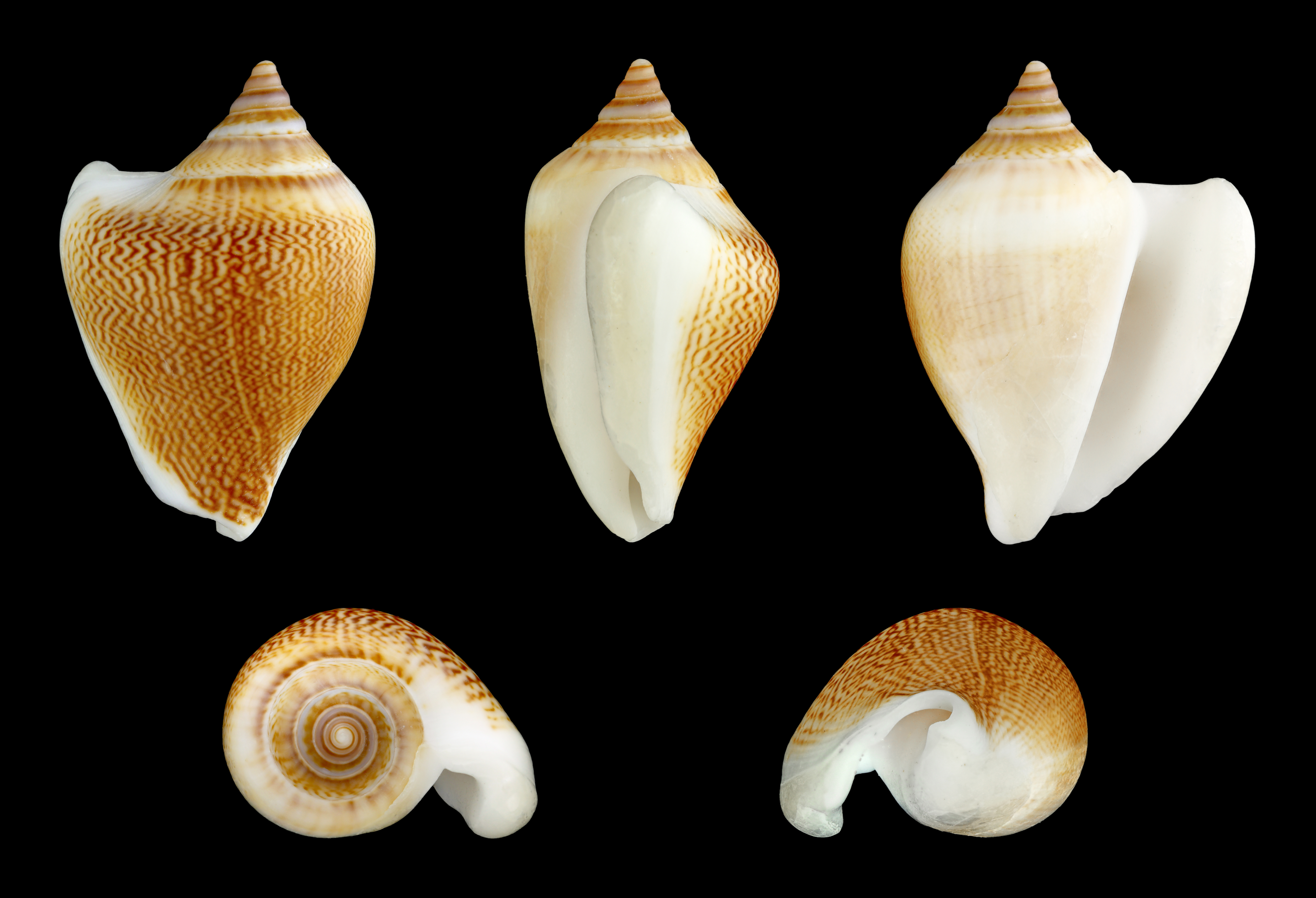 Dog Conch; Length 3.4 cm; Originating from Japan; Shell of own collection, therefore not geocoded. Dorsal, lateral (right side), ventral, back, and front view.